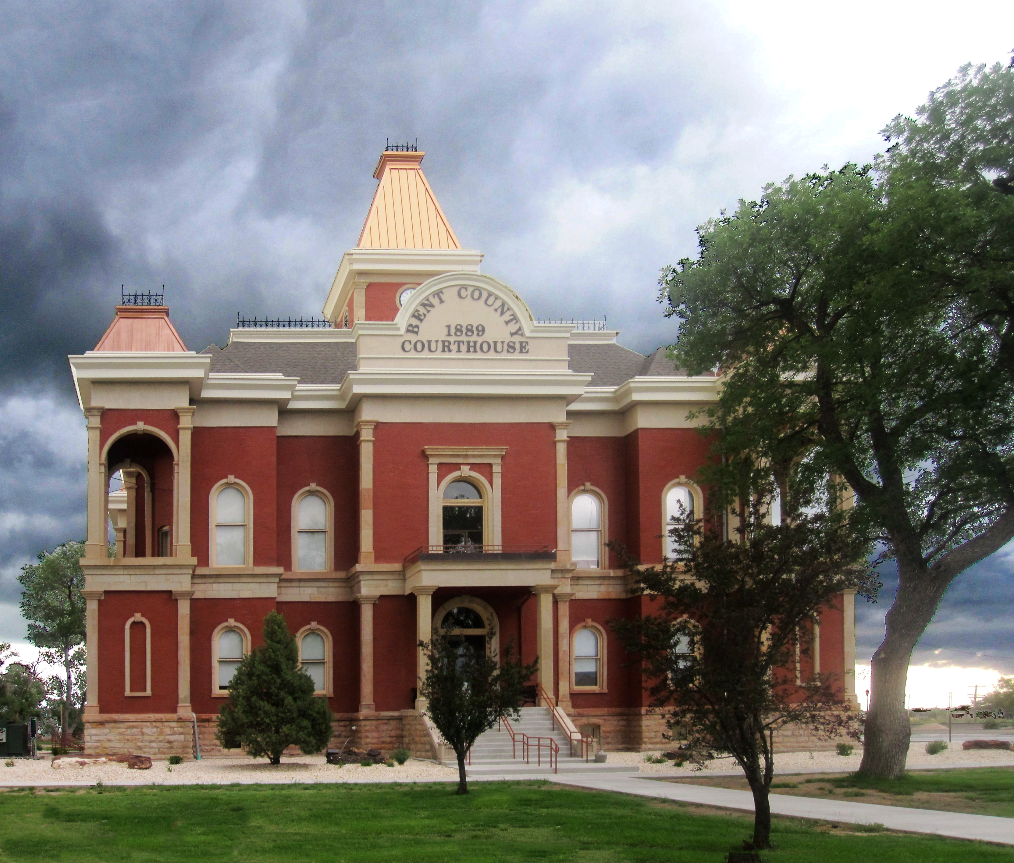 I took photo with Canon camera in Las Animas, CO.